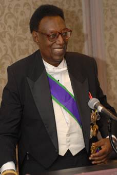 King Kigeli of Rwanda who still lives in exile in Washington DC